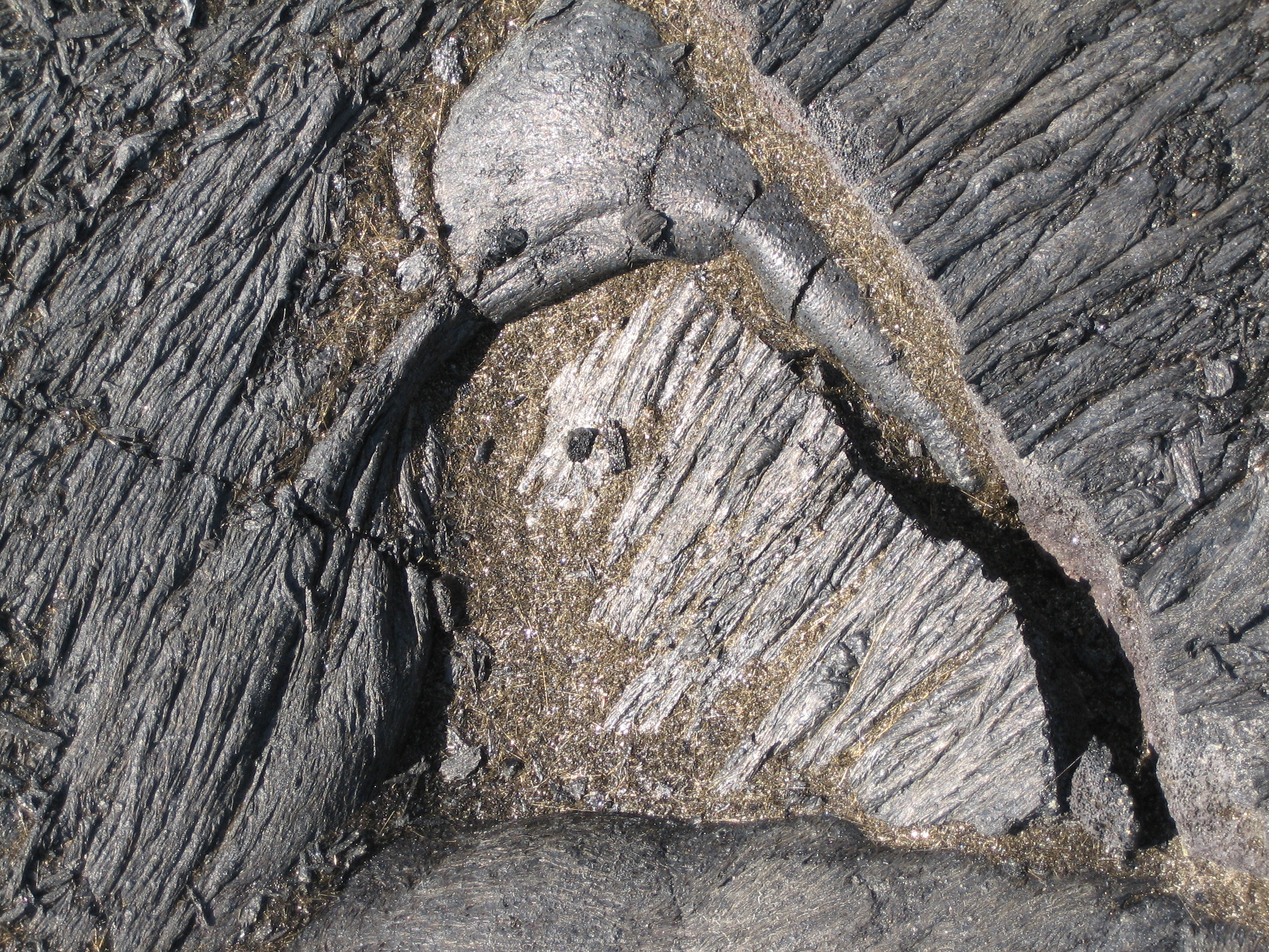 Volcanic glass ("Pele's hair"), Volcano National Park, Hawaii.